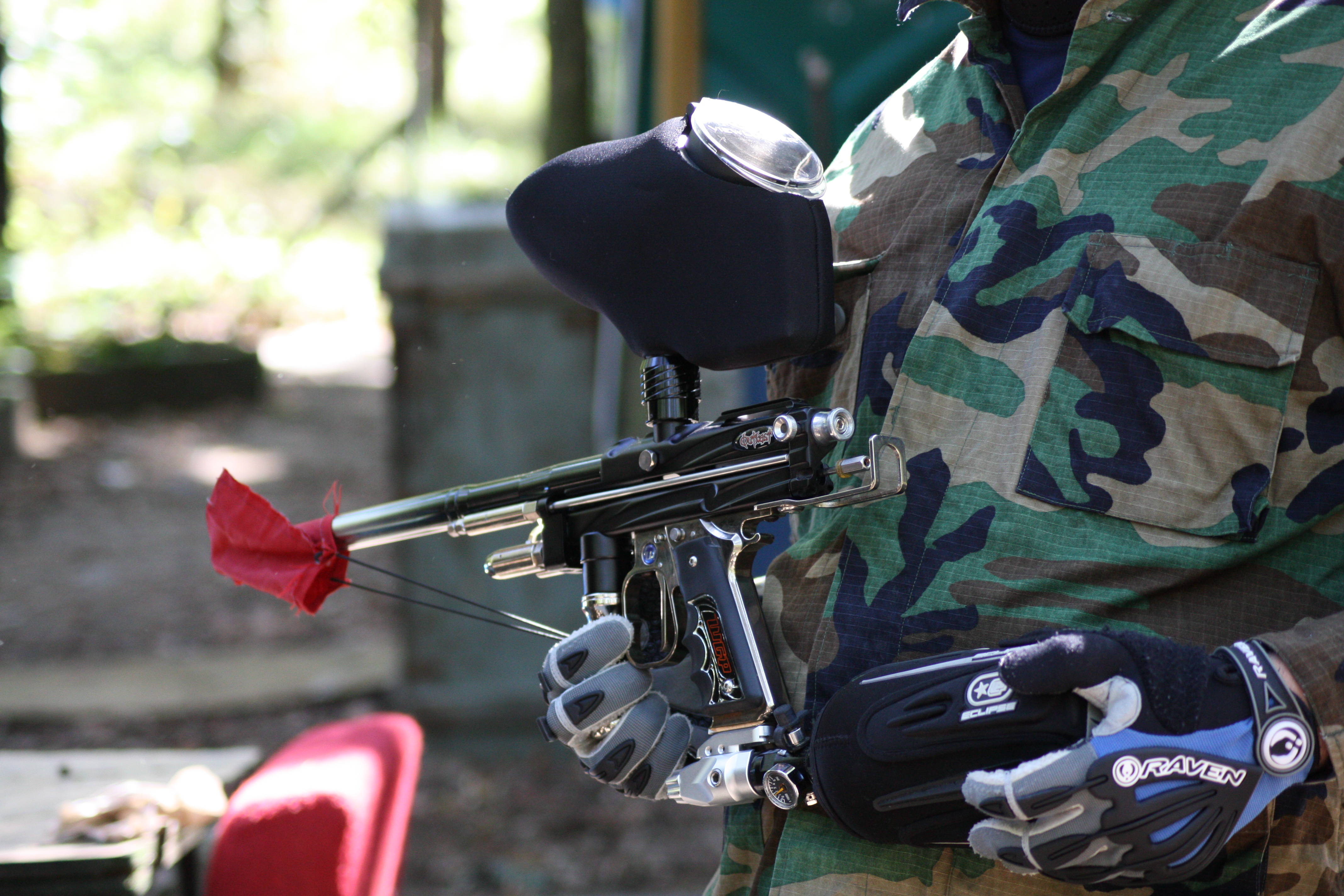 Paintball games in Zalesie Górne near Piaseczno, Poland